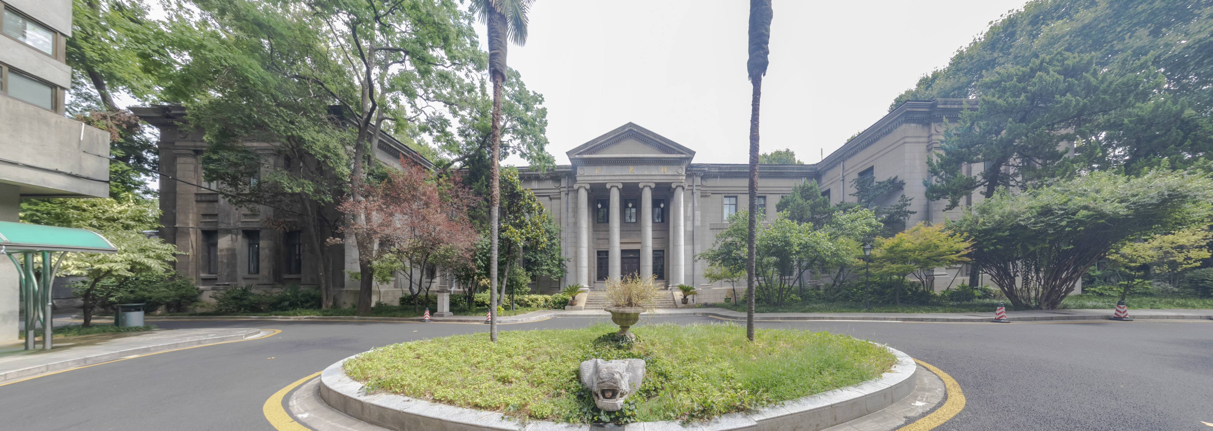 2 Sipailou, Xuanwu District, Nanjing